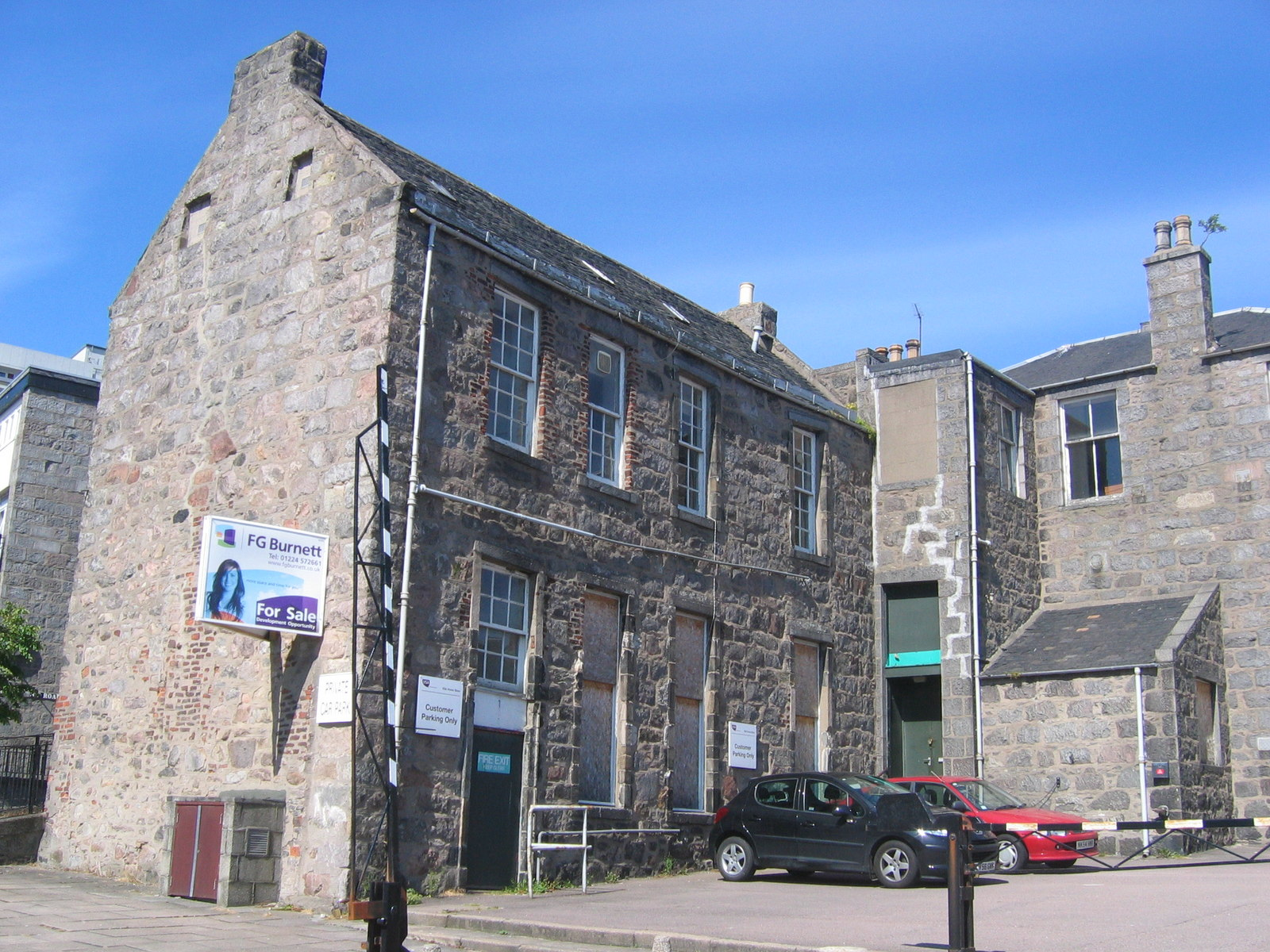 This building near to Aberdeen, Great Britain used to be a shop from the Voluntary Service Aberdeen (VSA).